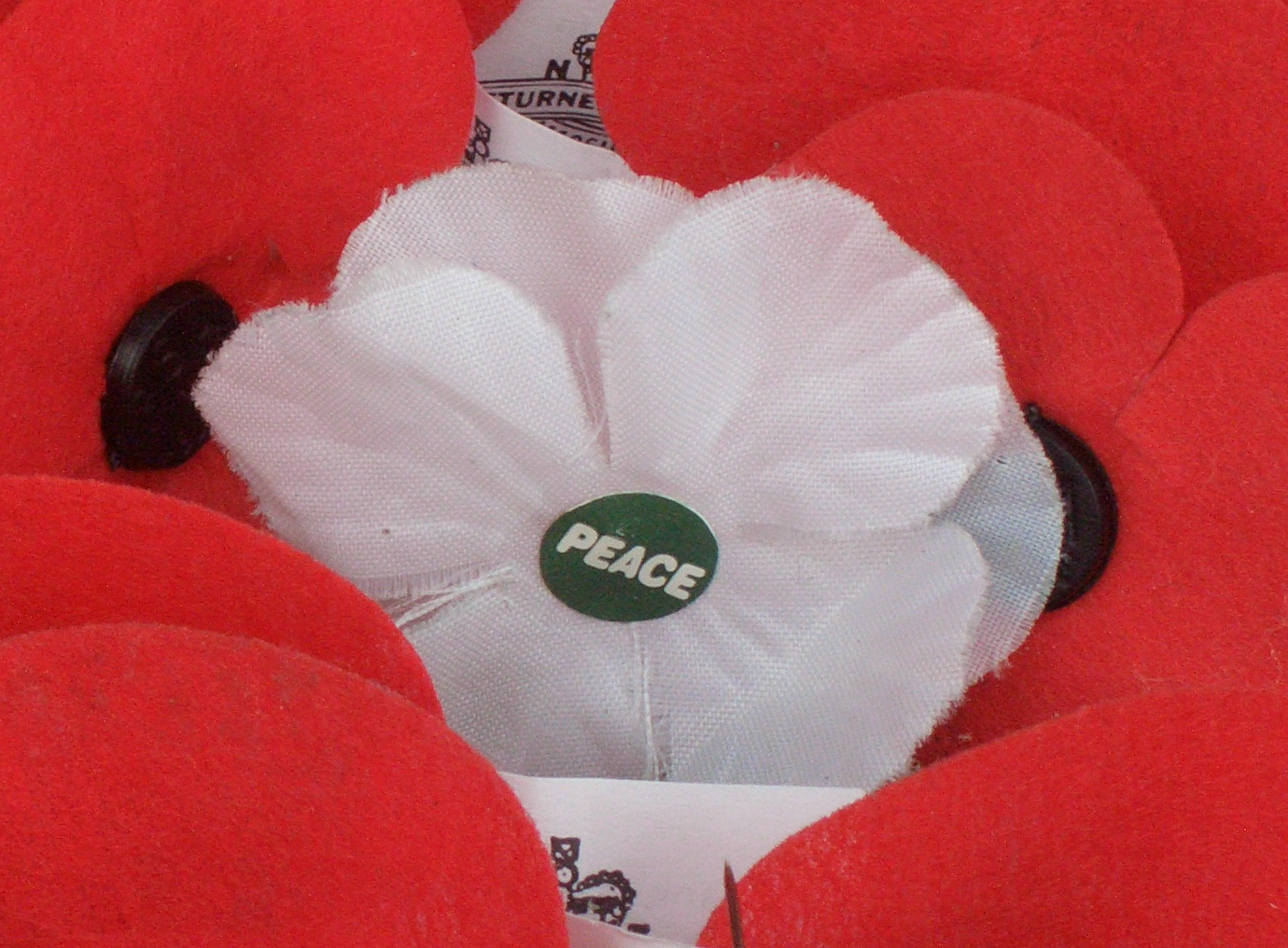 Artificial poppies left on the Waitati cenotaph on Anzac Day 2009. Most are poppies of the Royal New Zealand returned and Services Association Inc; the white one is promoted by 'White Poppies for Peace', a New Zealand peace group.